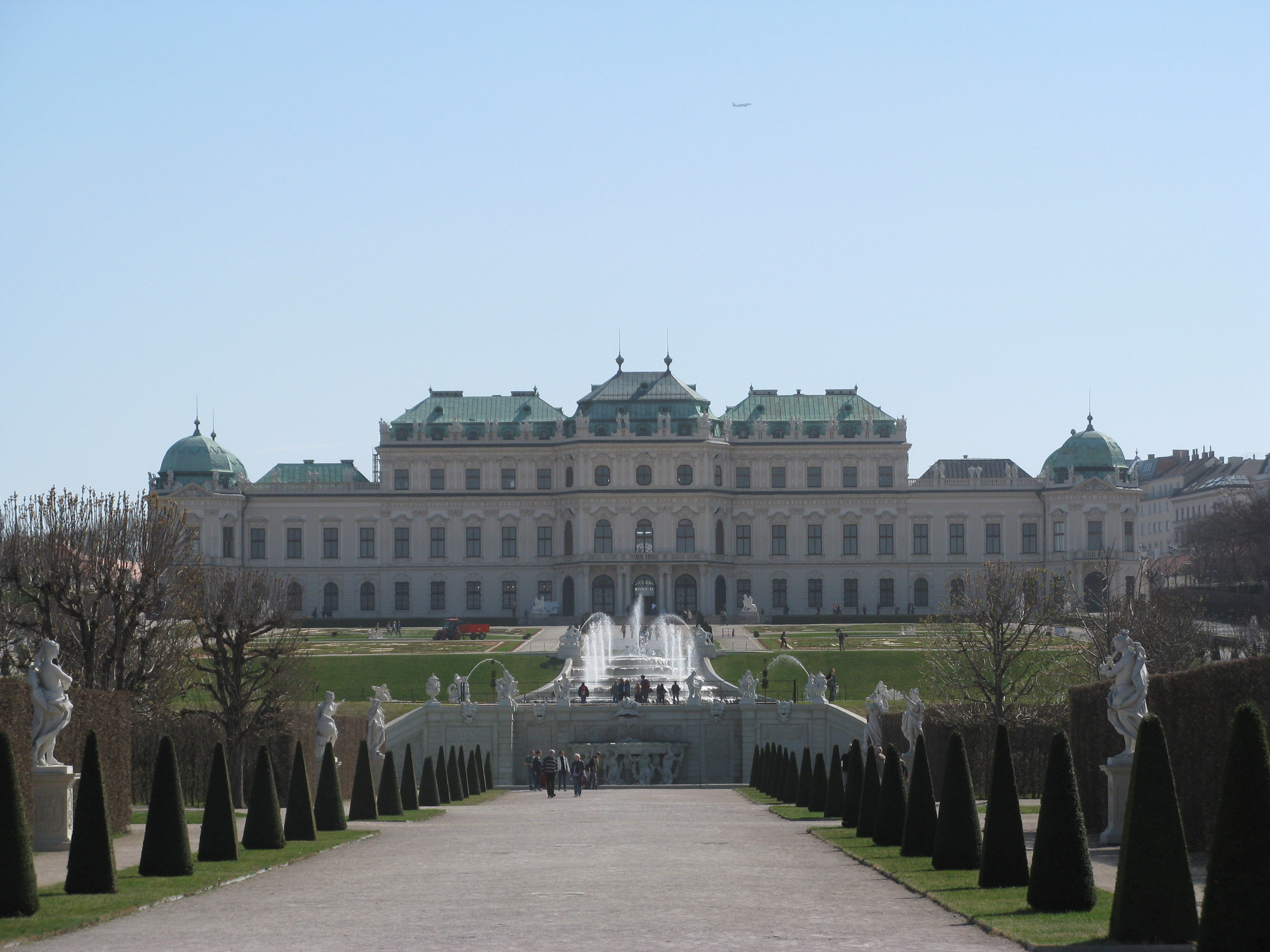 Belvedere.